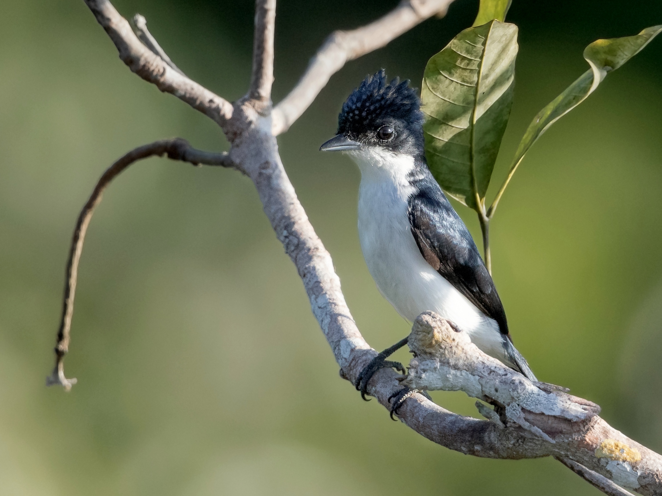 Glossy-backed Becard male; Botanic Garden Tower, Manaus, Amazonas, Brazil